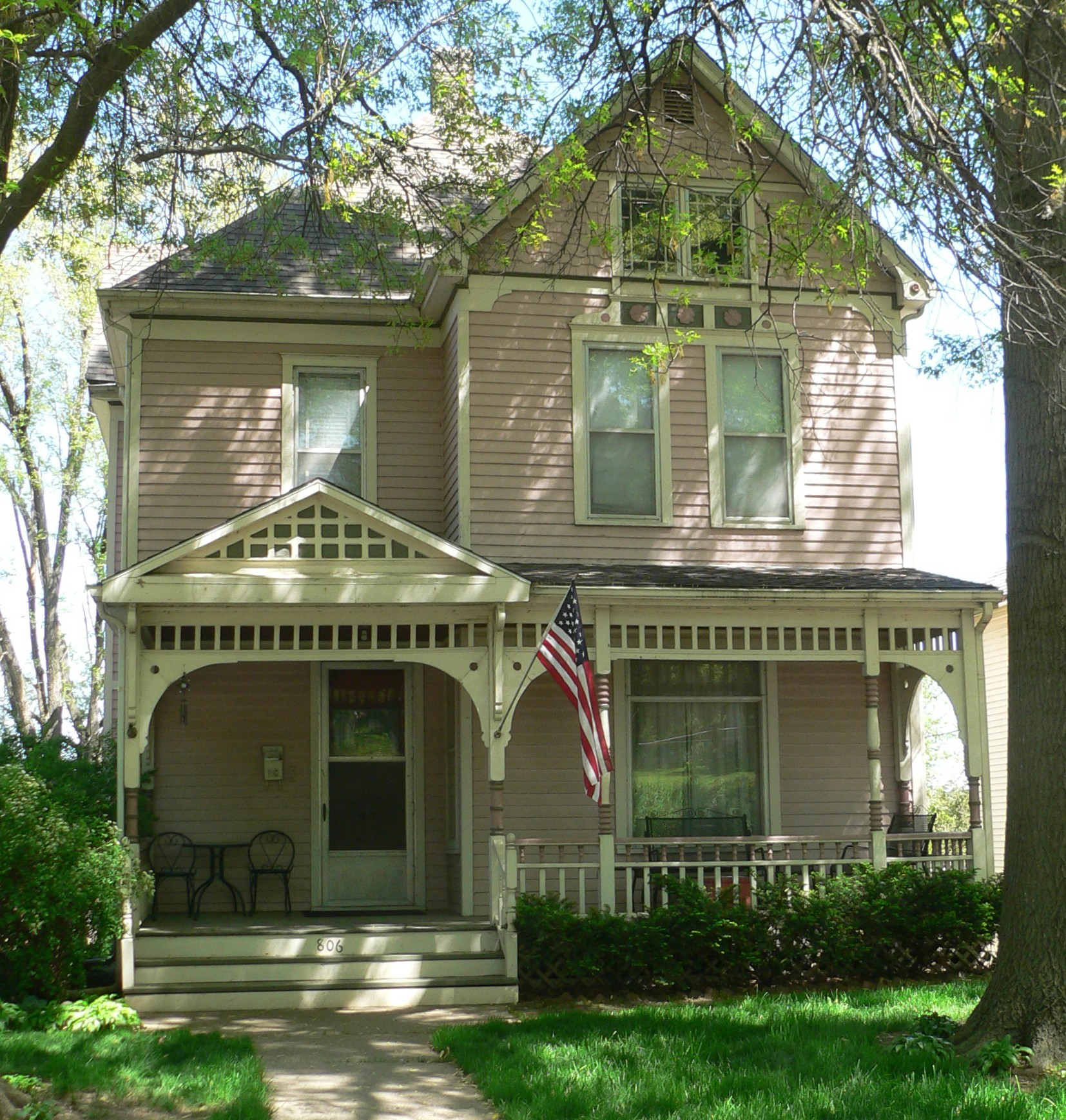 Jansen house, at 806 N. 3rd Street in Atchison, Kansas; seen from the west, across 3rd.